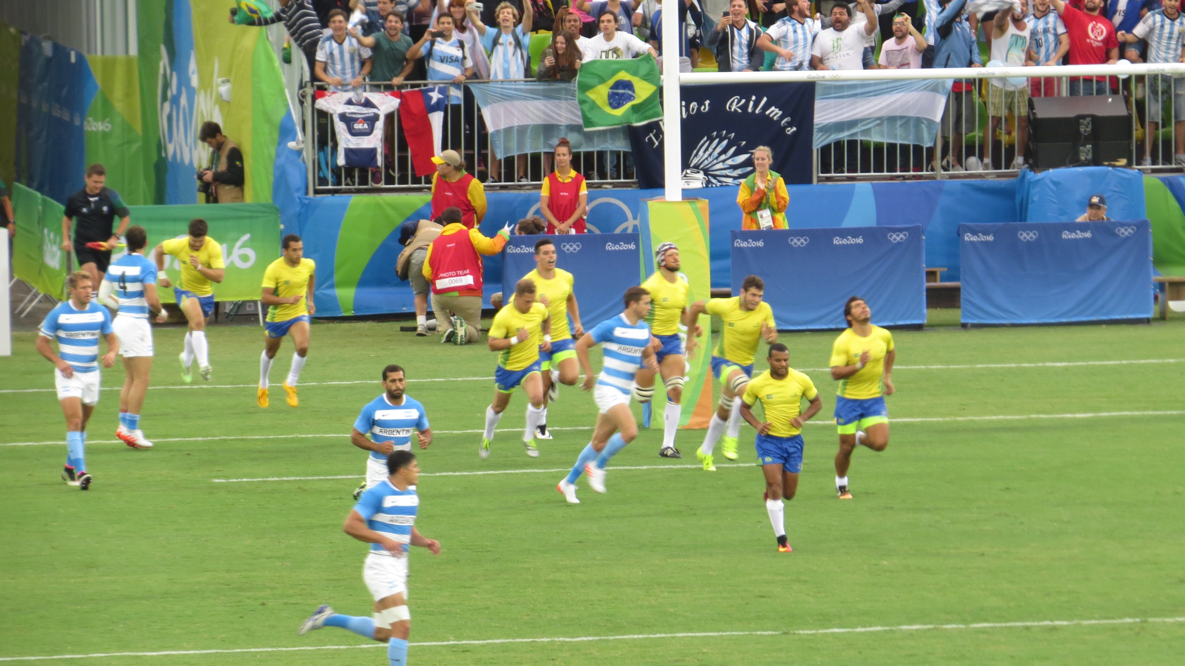 Rio 2016. Rugby 193